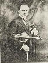 Photograph of Alexander Chuhaldin